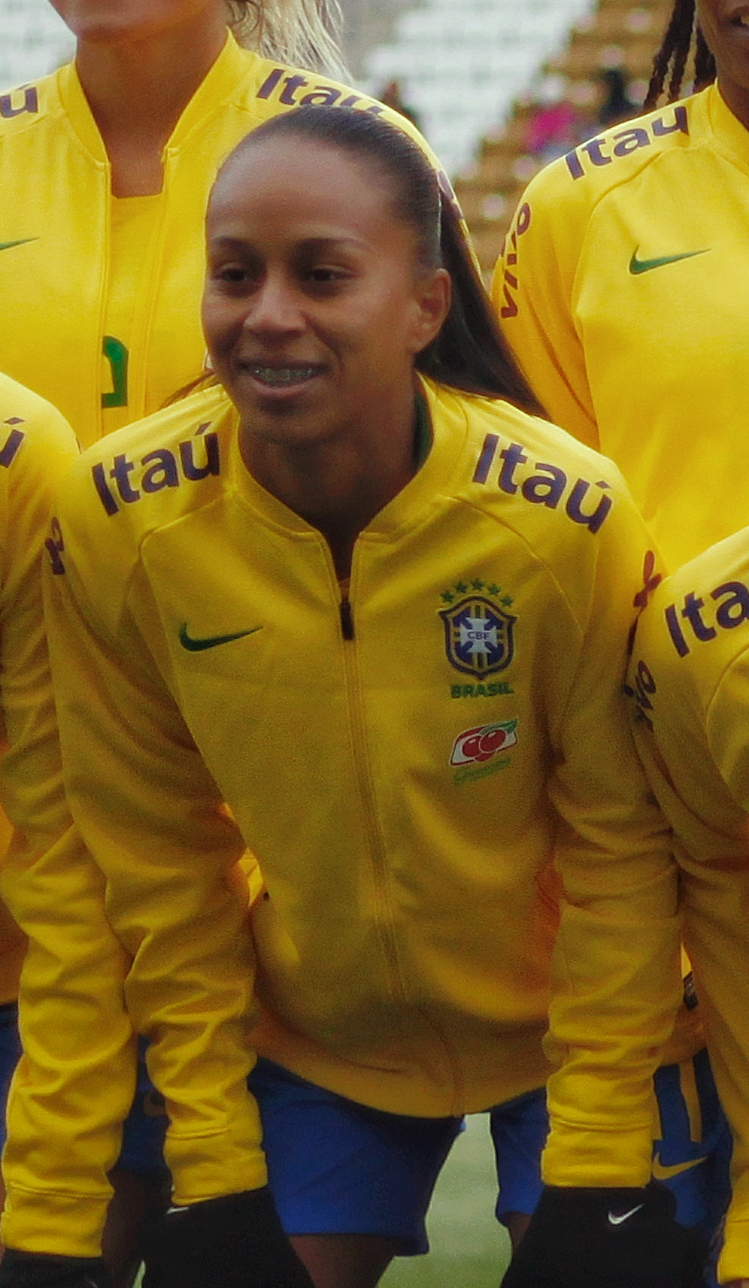 Brazil women's national football team right before the match against Japan at the 2019 SheBelieves Cup on February 27, 2019.